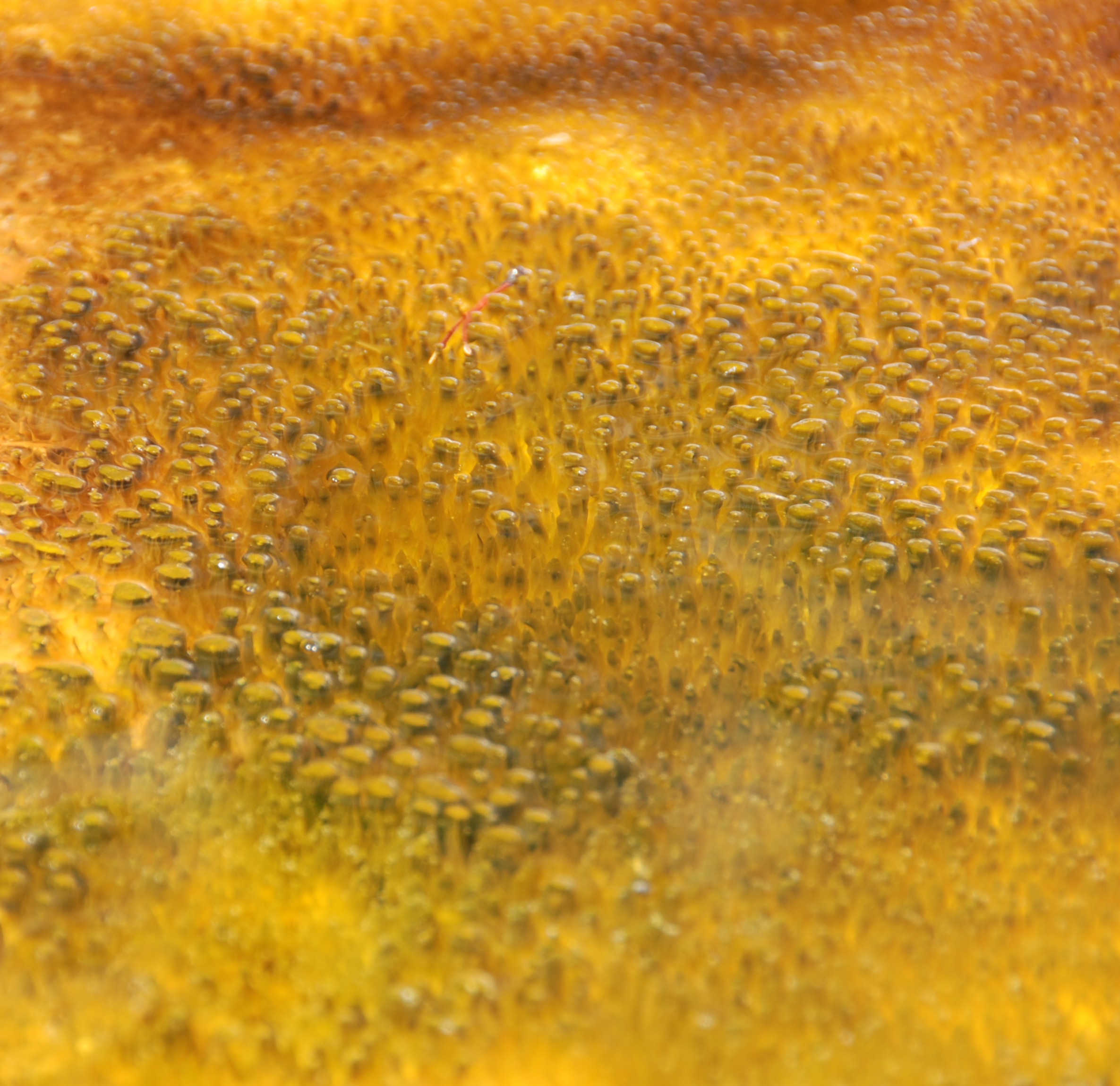 Microbial mat in hot spring in Yellowstone National Park, USA